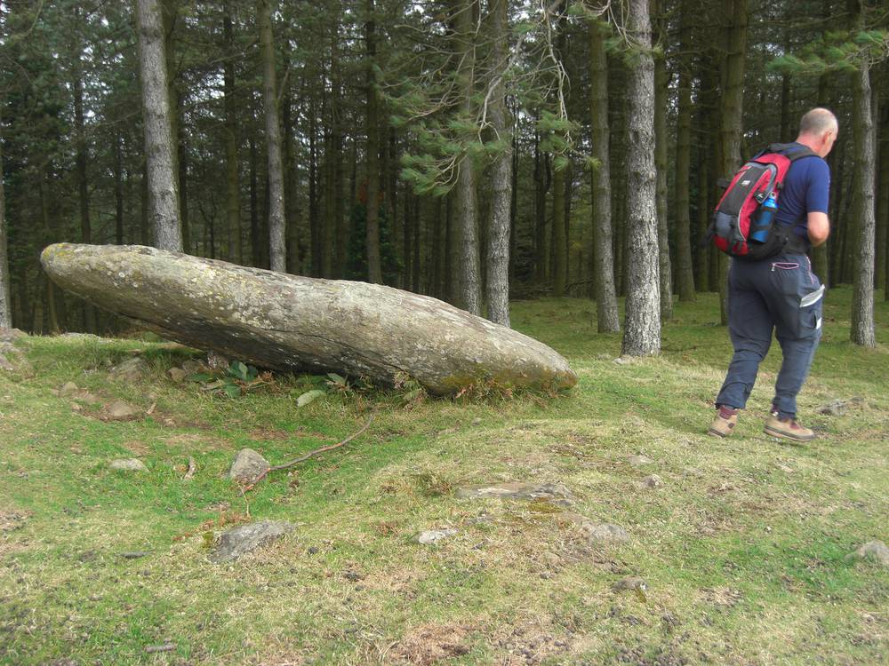 Menhir of Arribiribilleta,in 2008, when it was horizontal on the ground and was thought to be the top of a Dolmen. In 2010 its nature was established in a study, and it was put stand-up.